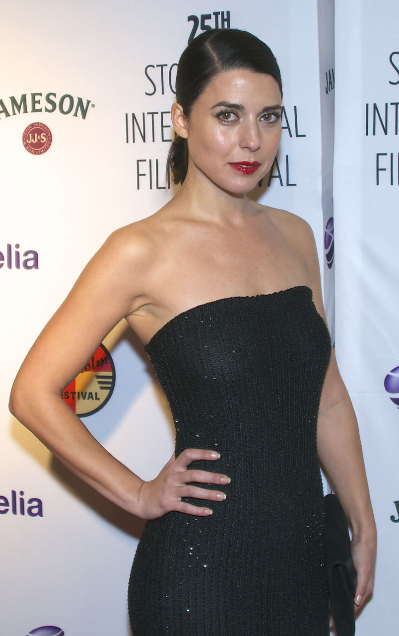 Stockholm International Film Festival 2014